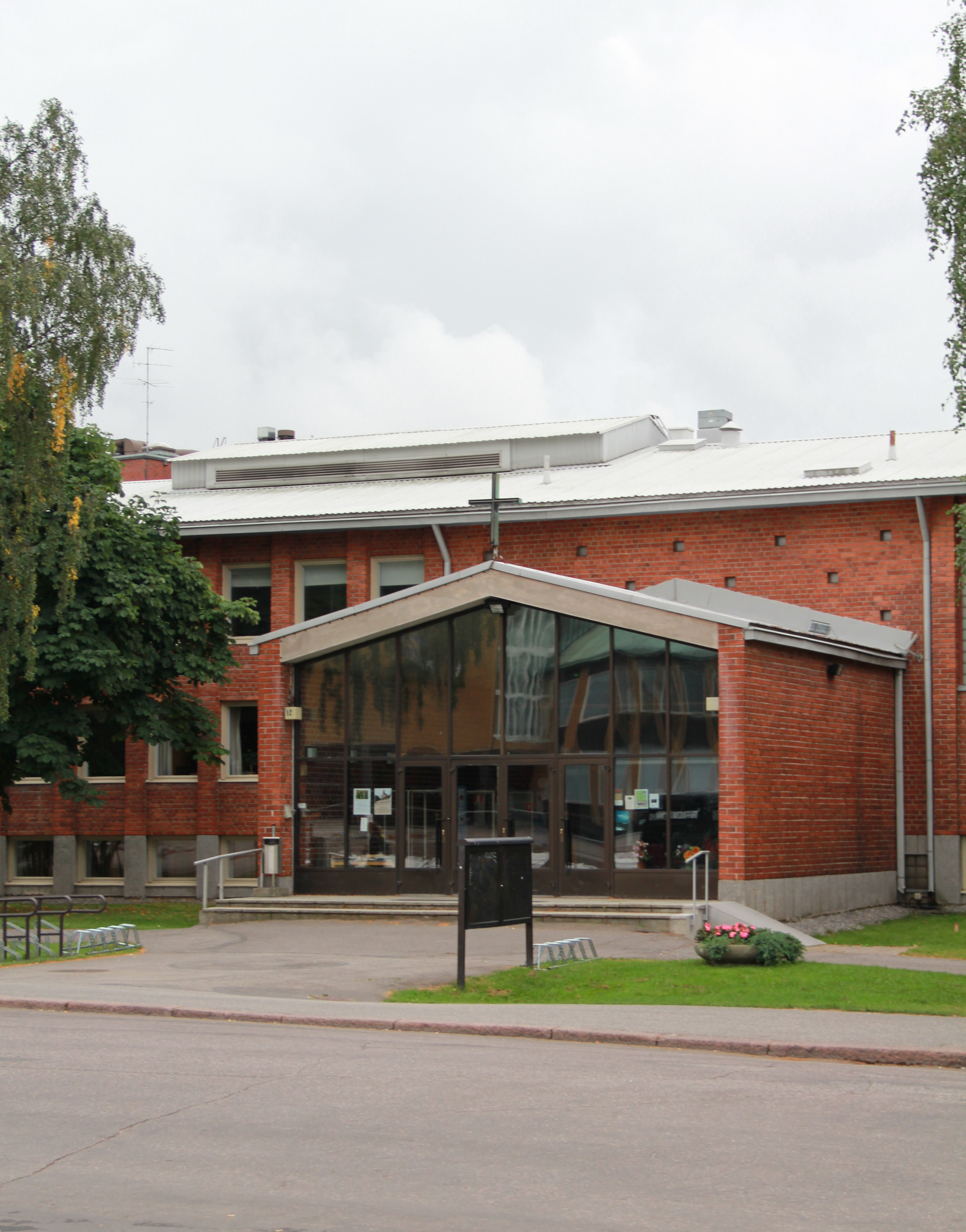 Tikkurila church in Vantaa, Finland. Designed be architects Leena and Kalle Niukkanen, completed in 1956. Main entrance.